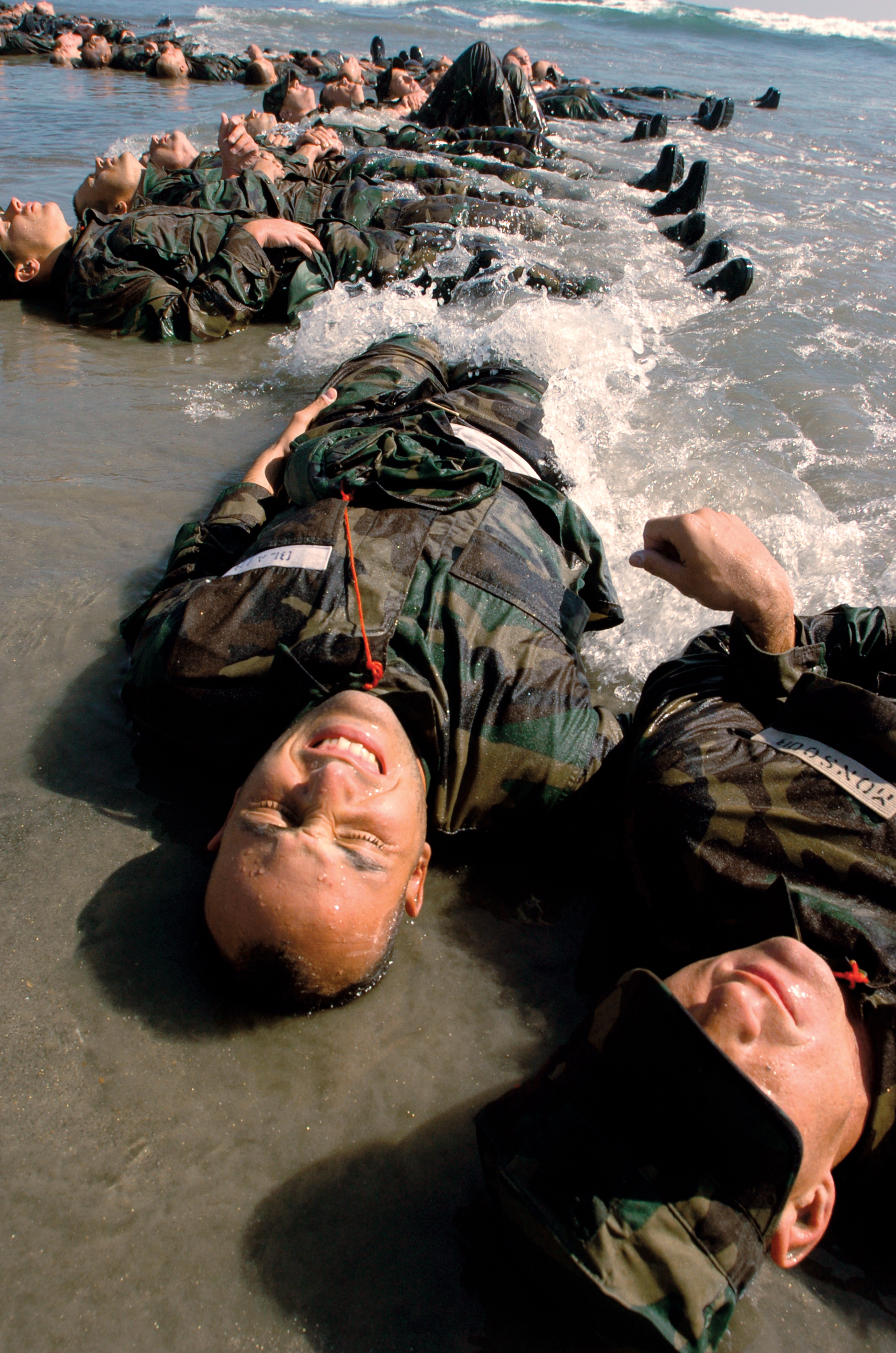 040413-N-6967M-284 Surfing is what they call it. Laying in the surf as the frigid water rolls over them. It's used to keep the candidates cold, wet and to weed out the people who don't have the perseverance to continue. (All Hands, August 2004, pg. 16)